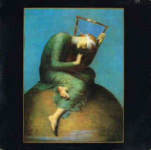 A sad woman dressed in a gloomy green dress strumming somberly away on the single string left on a lyre whilst sitting on a hill with a blue background.